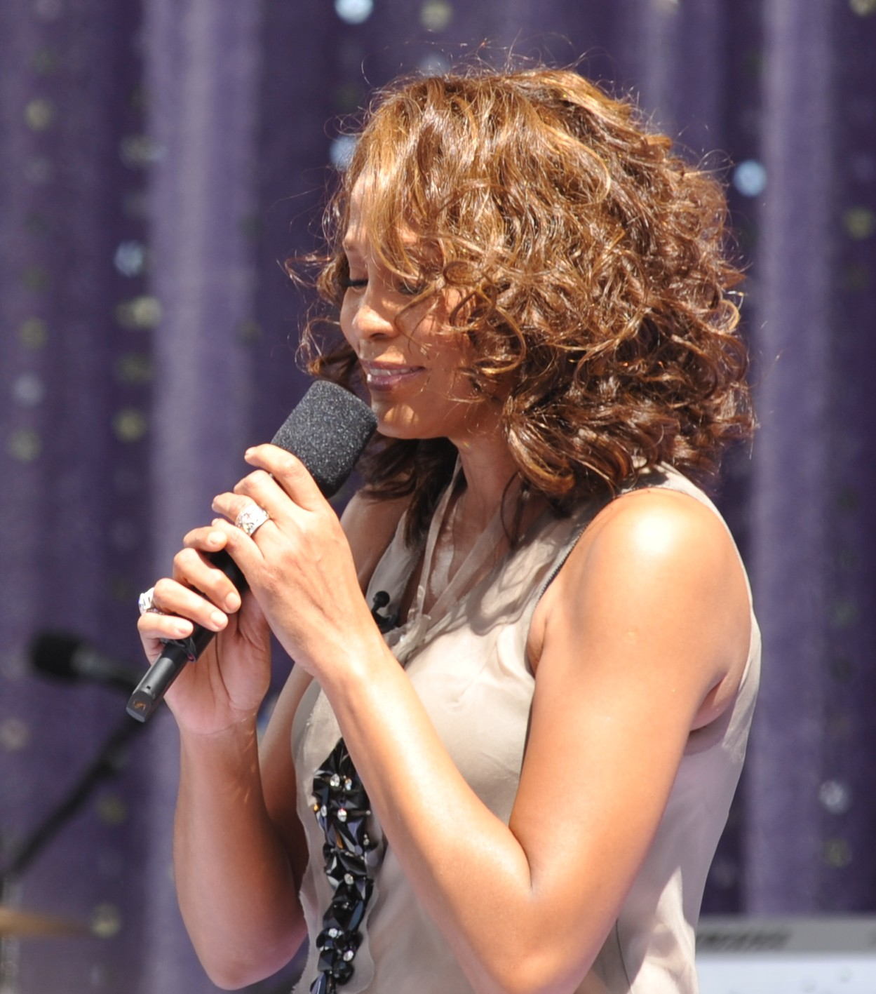 American singer Whitney Houston performing on Good Morning America (Central Park, New York City) on September 1, 2009.